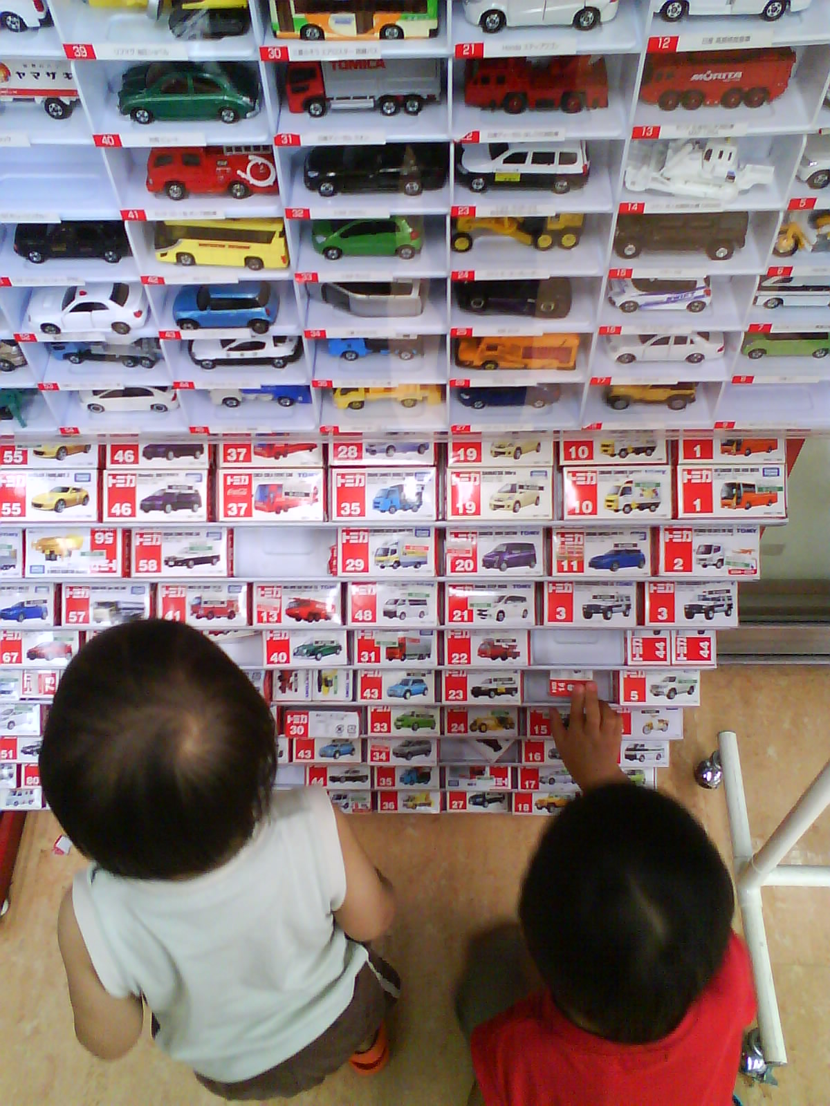 Tomica Heaven